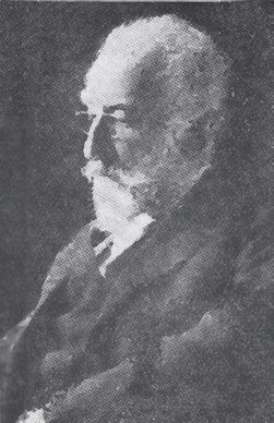 Pierce O'Mahony in Sofia, Bulgaria, 1903-1915